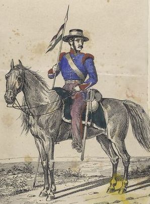 Mexican Army. Dragoner. 1845